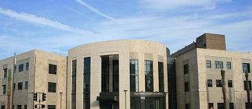 California Court of Appeal, Fourth District, Division 3